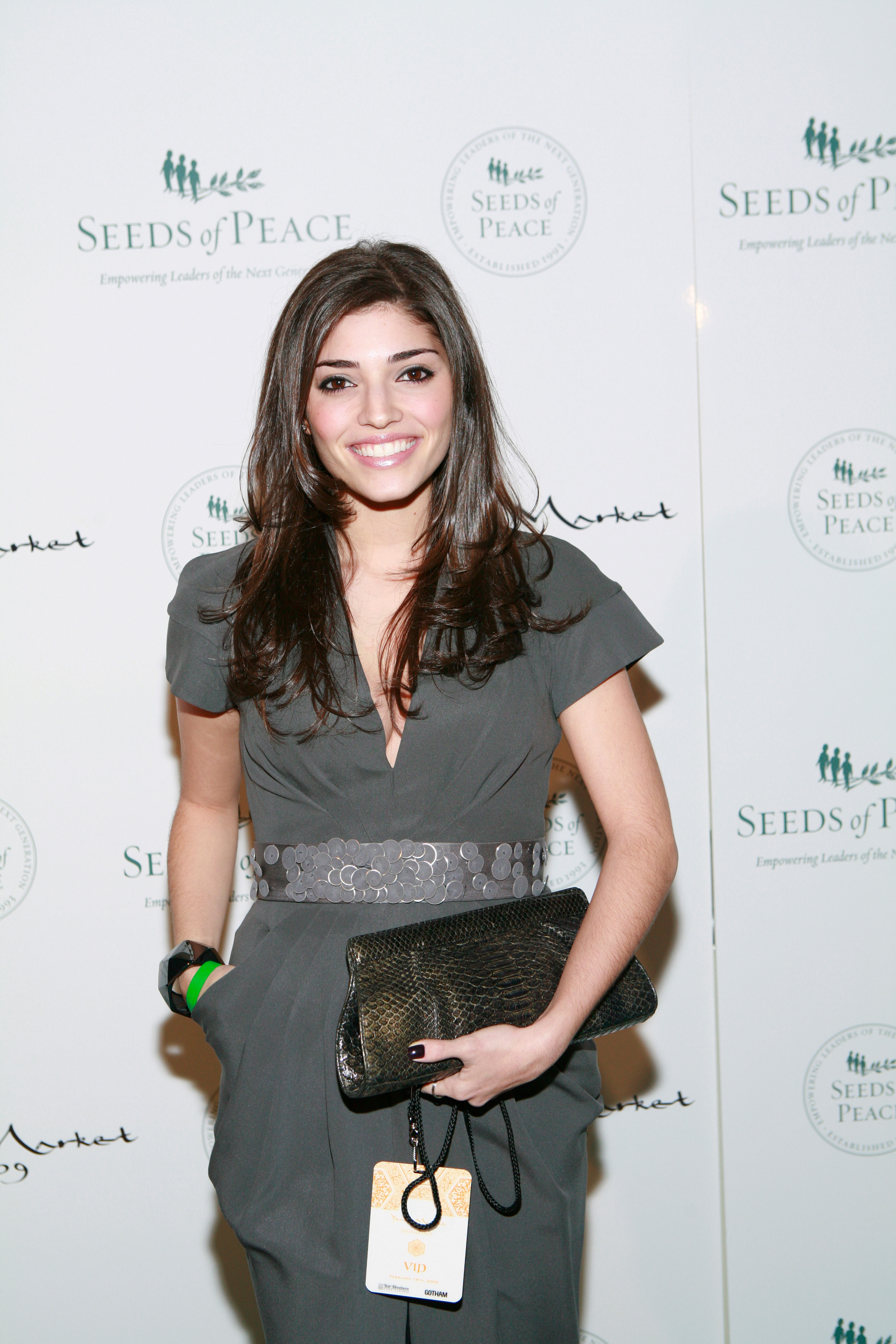 Amanda Setton at Seeds of Peace 2009 (19 February)